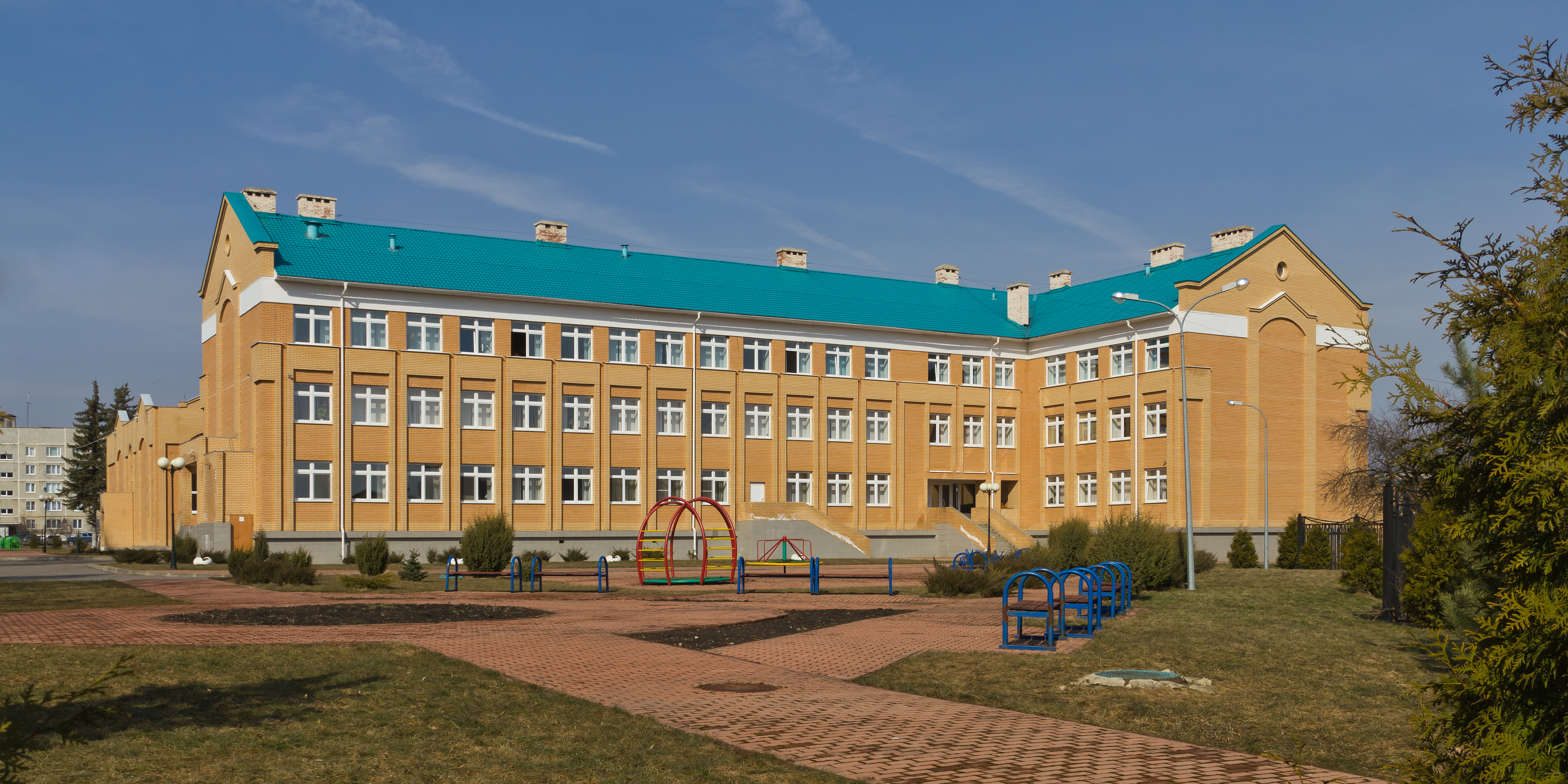 A school in Serebryanye Prudy, Moscow Oblast, Russia.